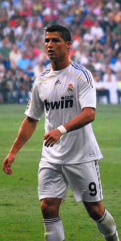 Cristiano Ronaldo playing for Real Madrid (3-2 vs Deportivo)